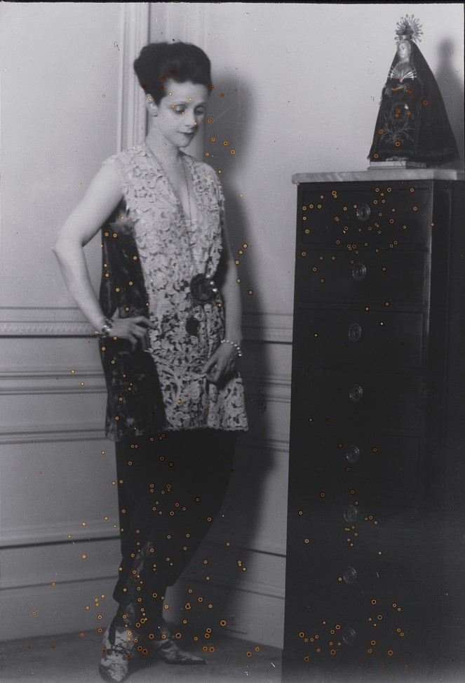 Title Portrait photograph of Mrs. Rita Lydig Contributor Names Genthe, Arnold, 1869-1942, photographer Created / Published between 1925 and 1942; from a negative taken 1925 Jan. 29. Subject Headings - Lydig, Rita de Acosta,--1880-1929. Format Headings Lantern slides. Portrait photographs. Notes - Title devised. - Purchase; Genthe Estate; 1942 or 1943. - ID: LC-G401-4619-015; 1925 Jan. 29 Medium 1 slide : lantern ; 4 x 5 in. or smaller. Call Number/Physical Location LC-G4085- 0365 [P&P]